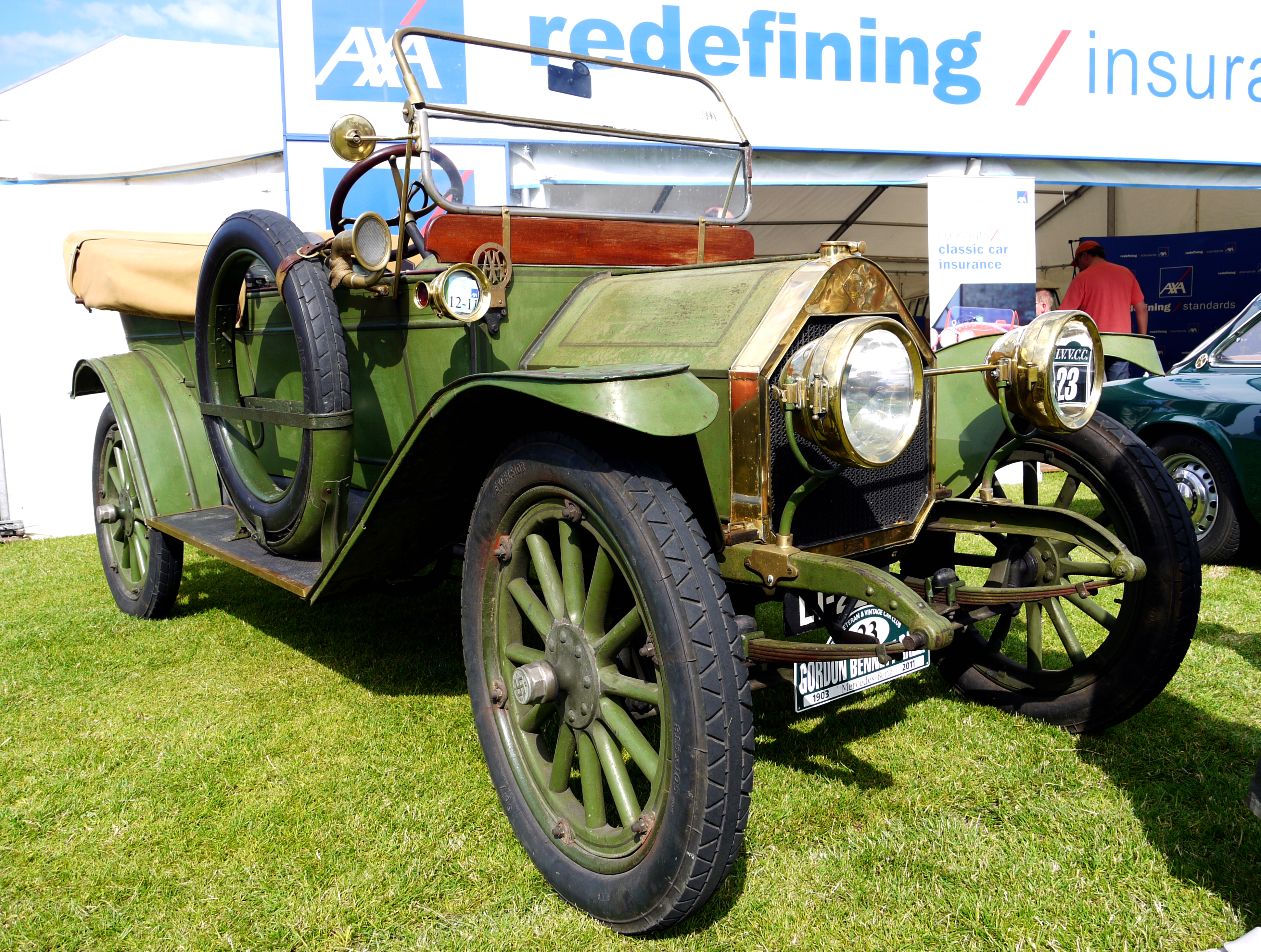 1913 K-R-I-T "KT" K Tourer 25hp. K-R-I-T Motor Car Company was a small automobile manufacturing company (1909-1916) based in Detroit, Michigan. Its name probably originated from Kenneth Crittenden who provided financial backing and helped design the cars. The emblem of the cars was a swastika. The outbreak of World War I seriously damaged the company and it failed in 1915.